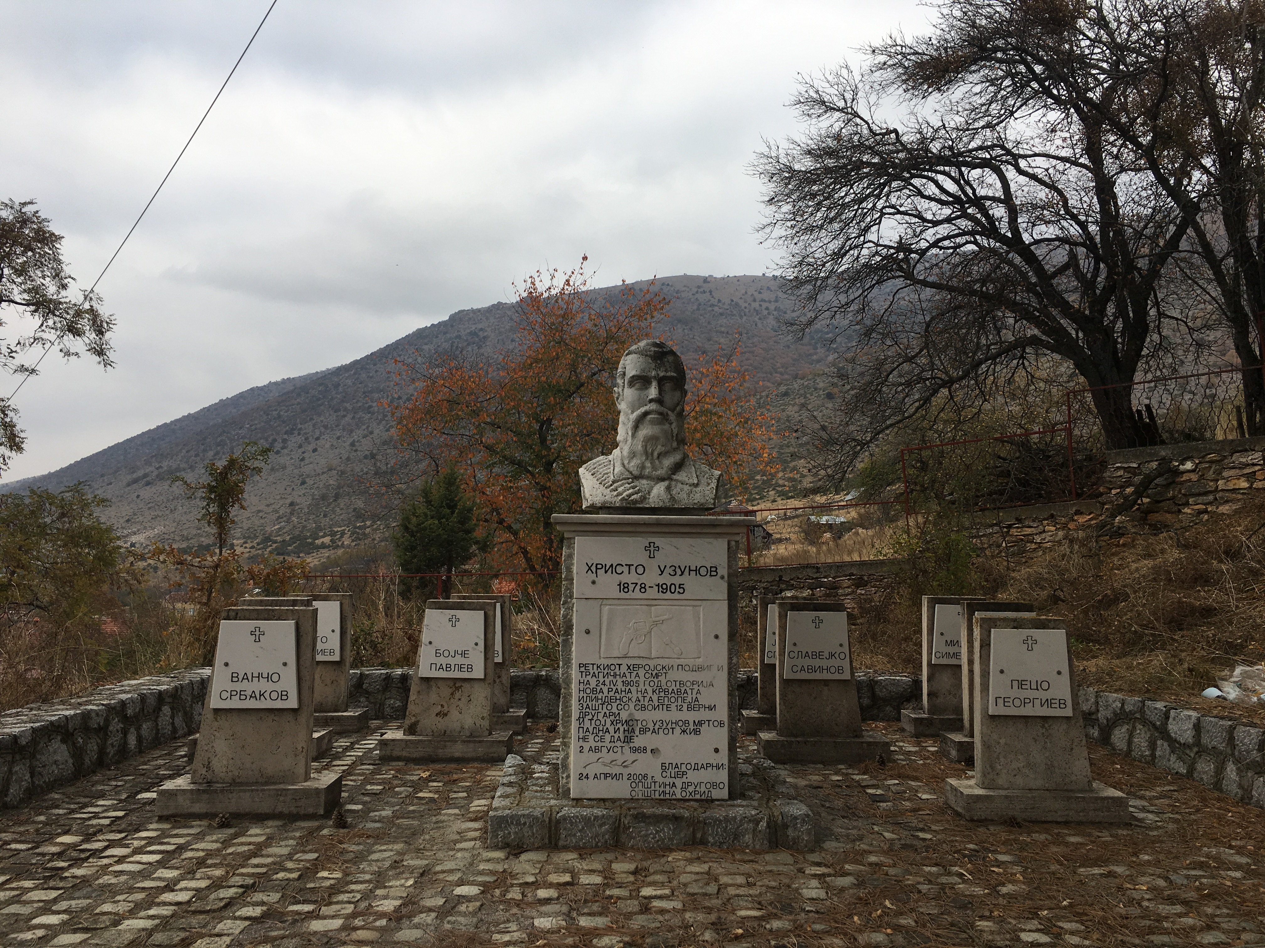 Wikiexpedition to Kopačka